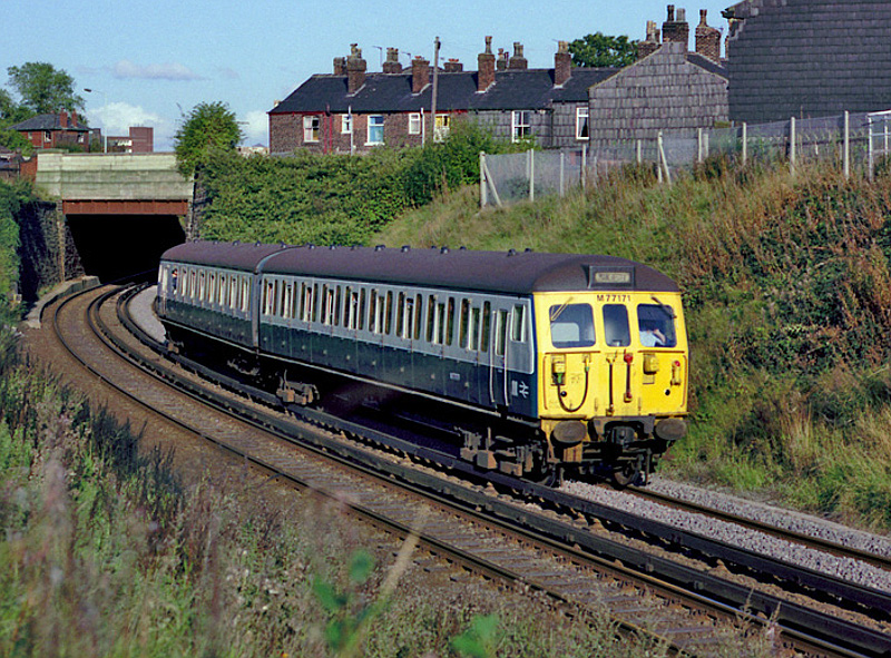 British Railways Wolverton Works class 504 two car 1200V dc 3rd rail 2-car electric multiple unit M77170 and M65450 approaches the former Bury Loco Junction on the Up Main line forming the 16:45 Bury to Manchester Victoria. Saturday 25th September 198202790